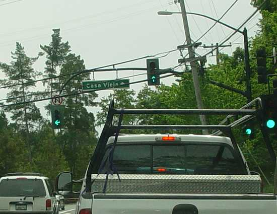 Example of traffic signal protect left turn arrow on J-arm